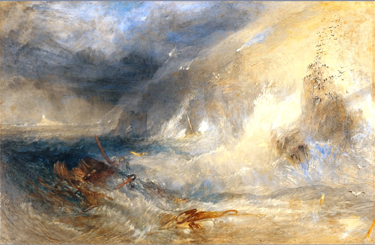 Long Ship's Lighthouse, Land's End